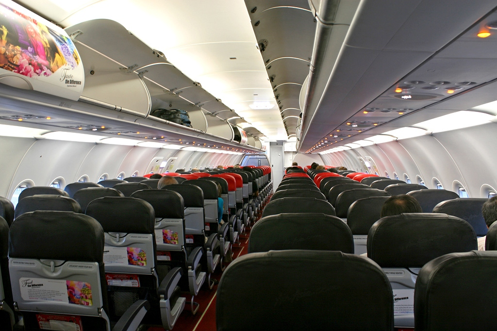 Morning flight to Bangkok. Nice cabin. First Airbus for Thai AirAsia (since September 2007).